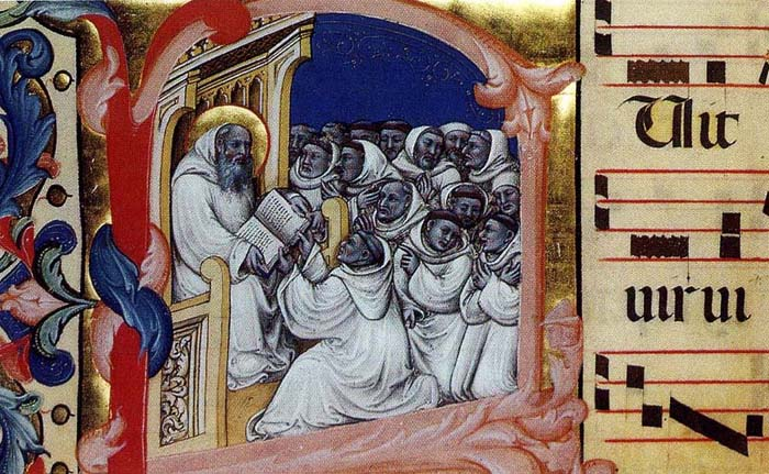 Chorus from Legenda aurea, a book on religious iconography.